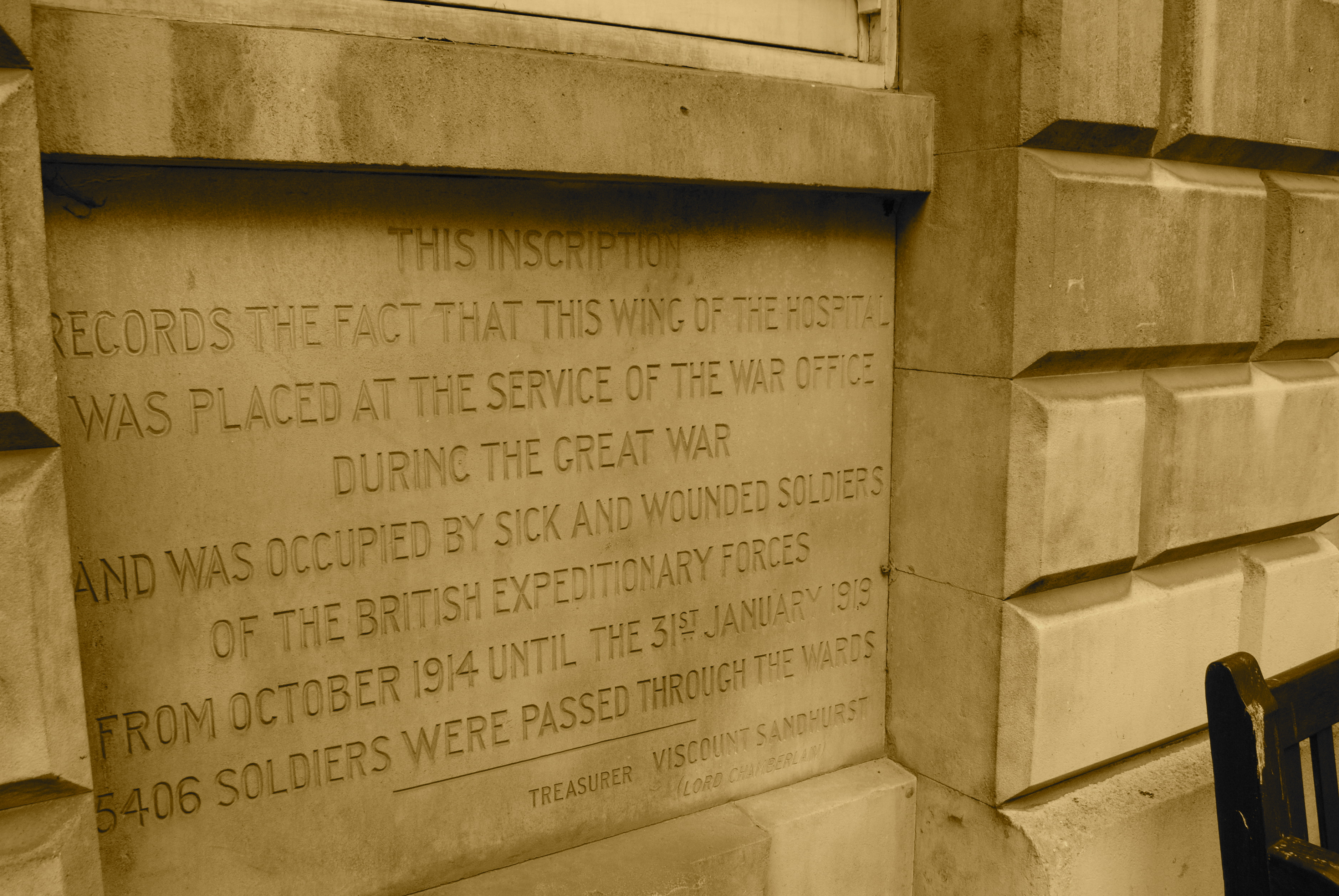 An inscription on a wall at St. Bartholomew's Hospital in London